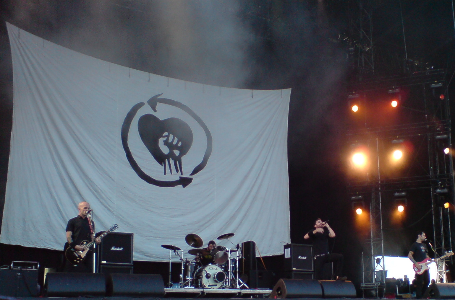 Rise Against (Zach Blair, Brandon Barnes, Tim McIlrath, Joe Principe) at Wiley Open Air in Neu-Ulm